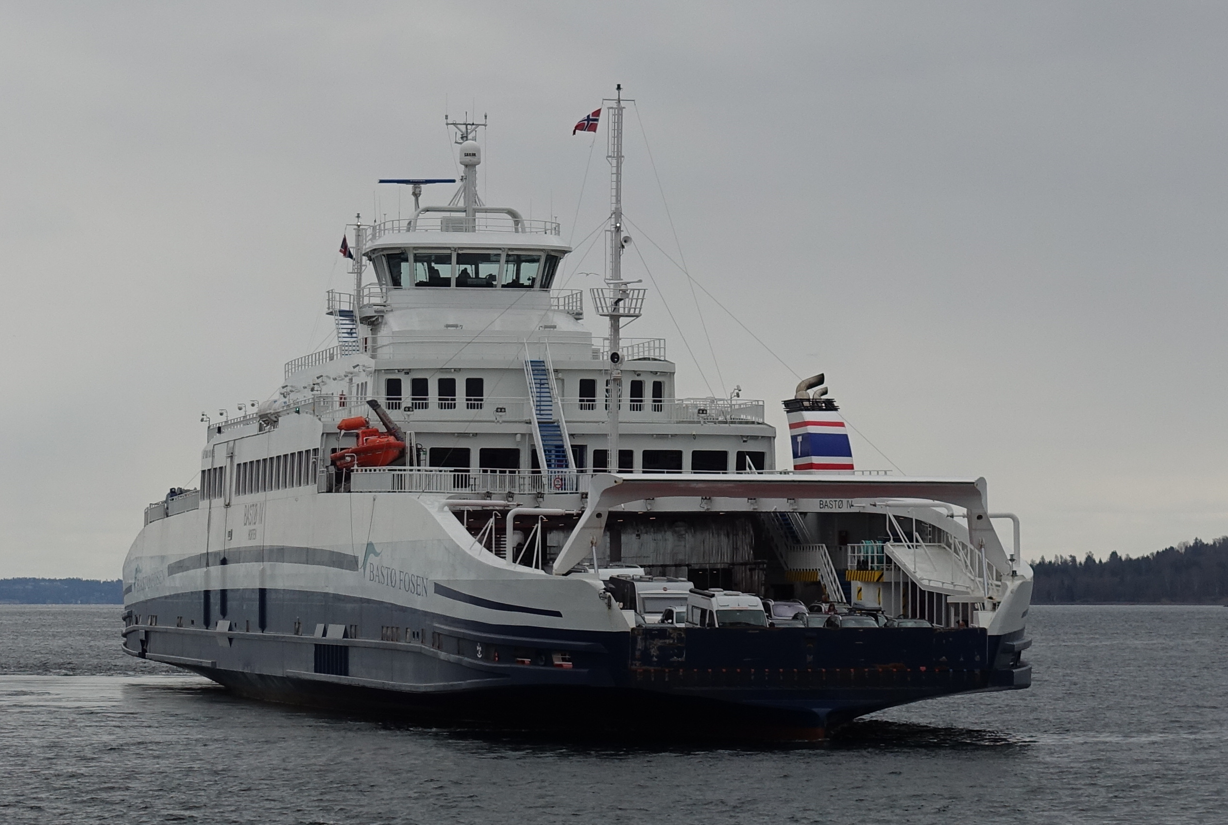 The ferry Basto IV entering Horten harbour in Norway